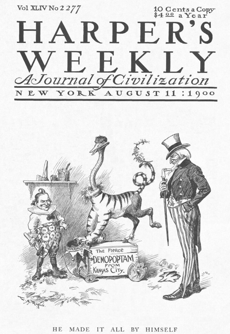 Harpers Weekly magazine cover USA 1900 Political cartoon shows William Jennings Bryan stands with a hammer and pot of glue beside a bizarre hybrid animal on a poorly constructed wheeled platform (labeled "The Fierce DEMOPOPTAM of Kansas City"), representing the Democratic Party platform in the 1900 election, as Uncle Sam looks on. Caption: "He Made It All By Himself".